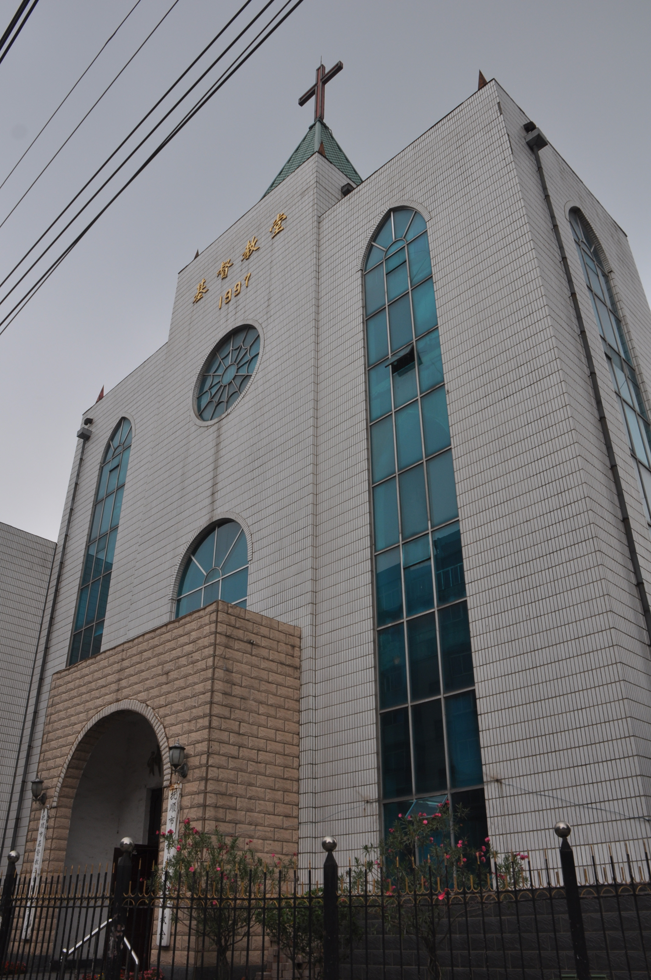 Zhonghelu Protestant Church, Fushun City, Liaoning Province, China